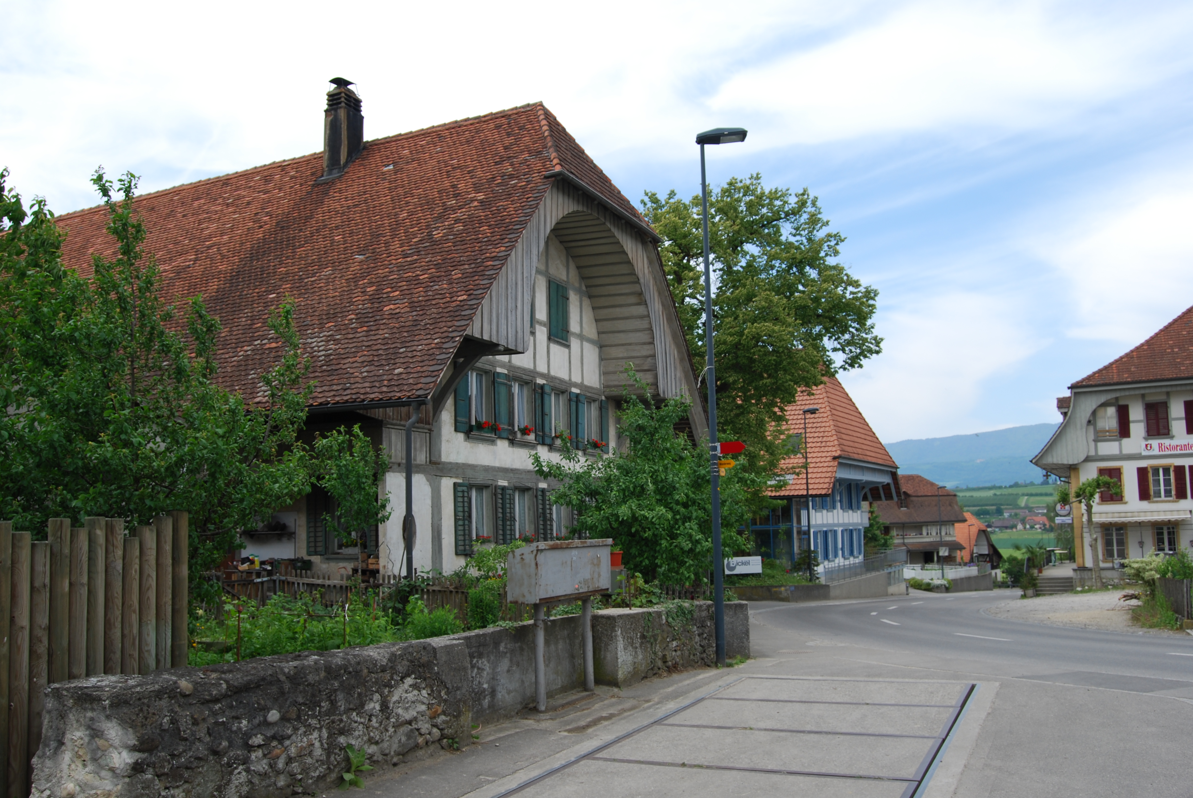 Walperswil, canton of Bern, SwitzerlandEsperanto: Walperswil, Kantono Berno, Svislando